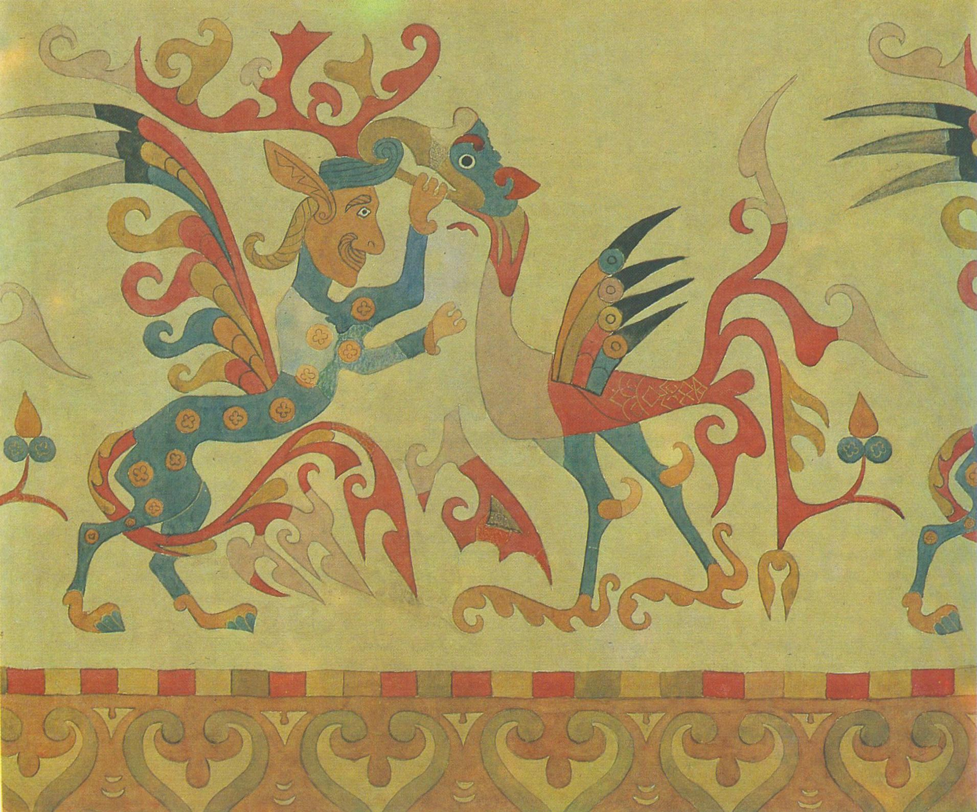 Fragment of felt carpet found in Pazyryk, Altay mountains